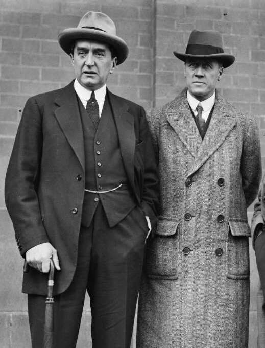 Prime Minister Stanley Bruce and Attorney-General John Latham